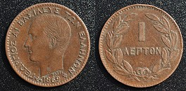 1 lepton 1869, Greece